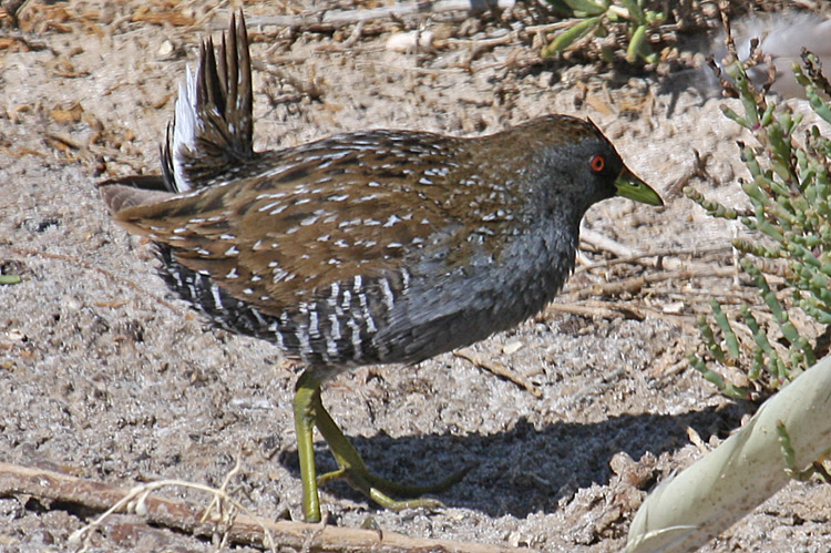 Australian Crake (Porzana fluminea), Strzelecki Track, South Australia